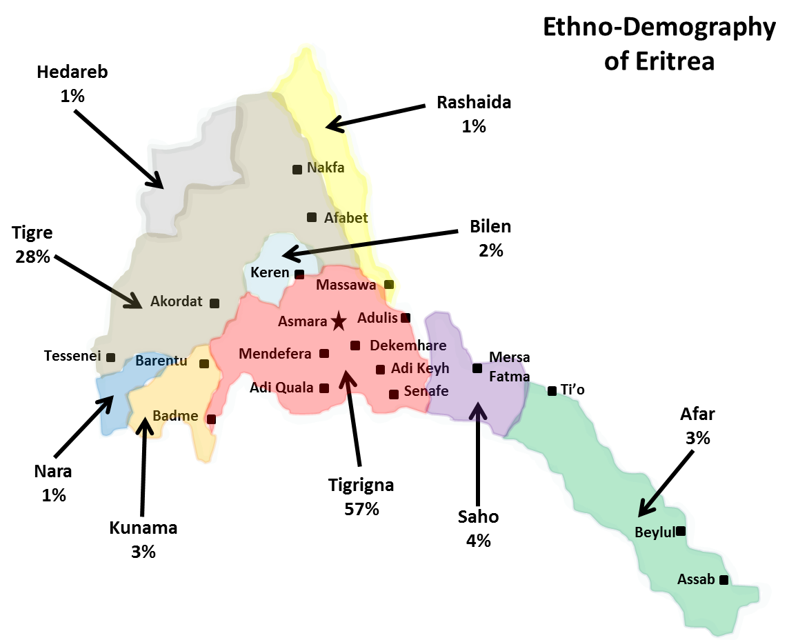 Ethno-Demographic map of the State of Eritrea